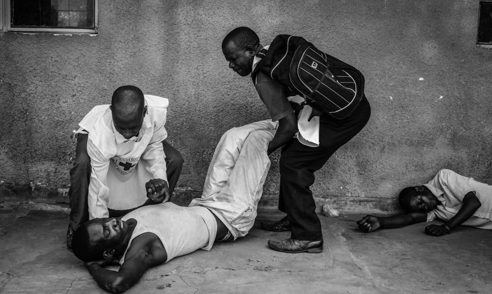 Two first aiders about to carry a man to the clinic after responding to a case of alcohol poisoning in Manyinga north western province. This is an image of "African people at work" from Zambia